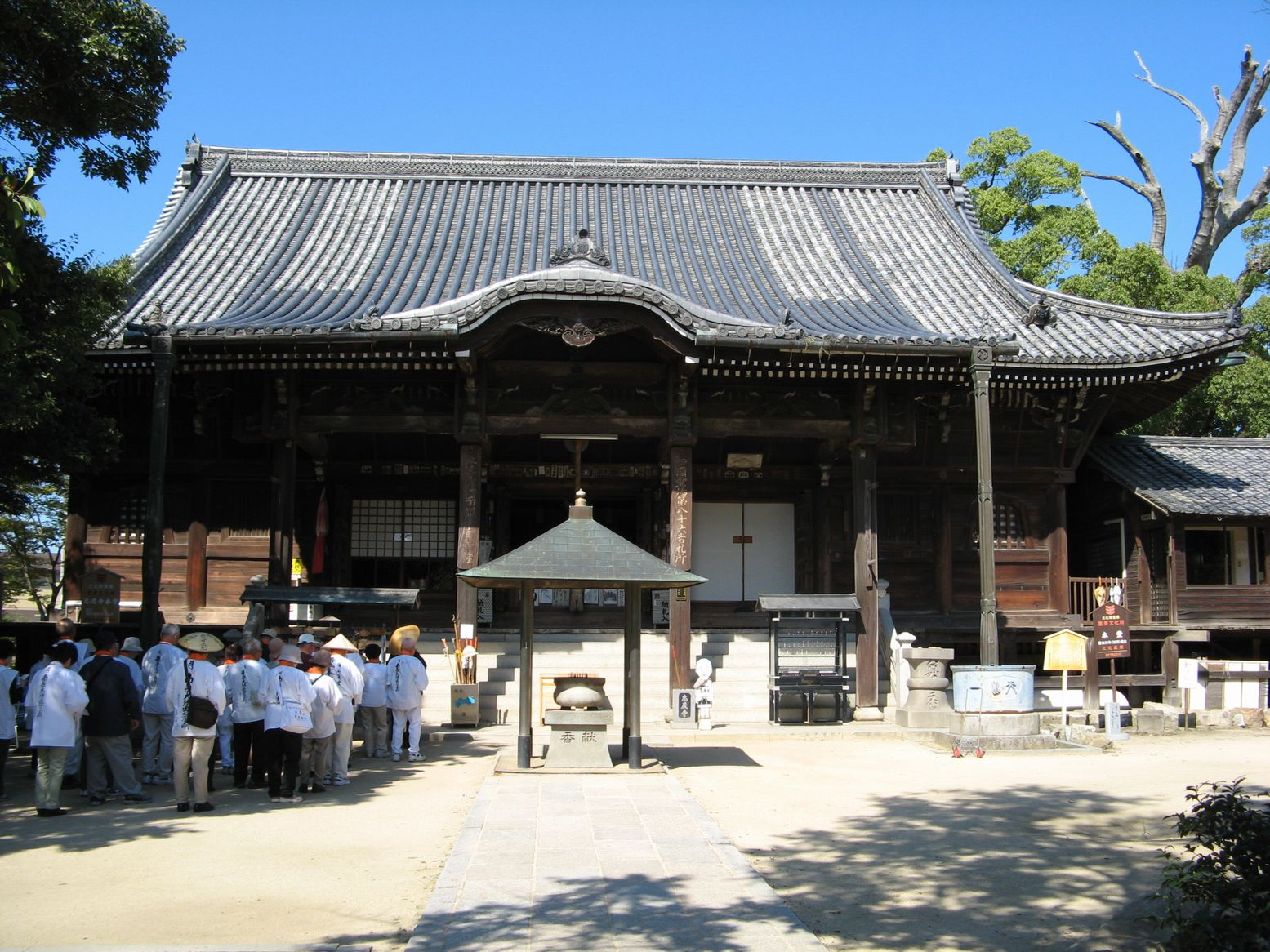 Main temple, Shido-ji